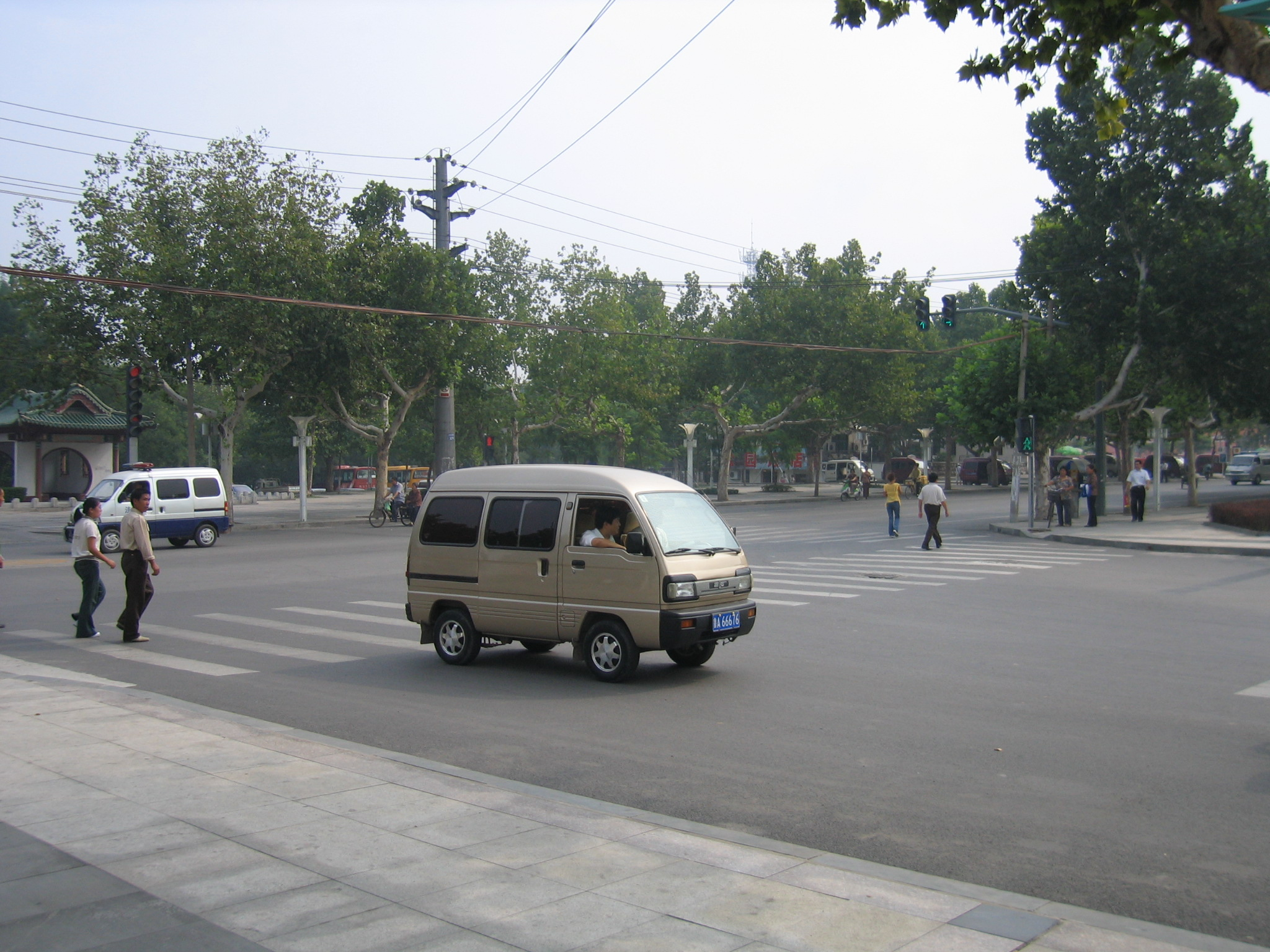 Zhangqiu.